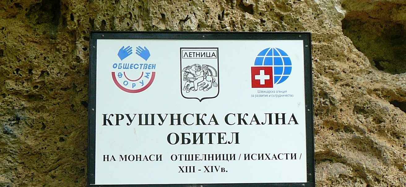 Krushuna watterfall,Bulgaria